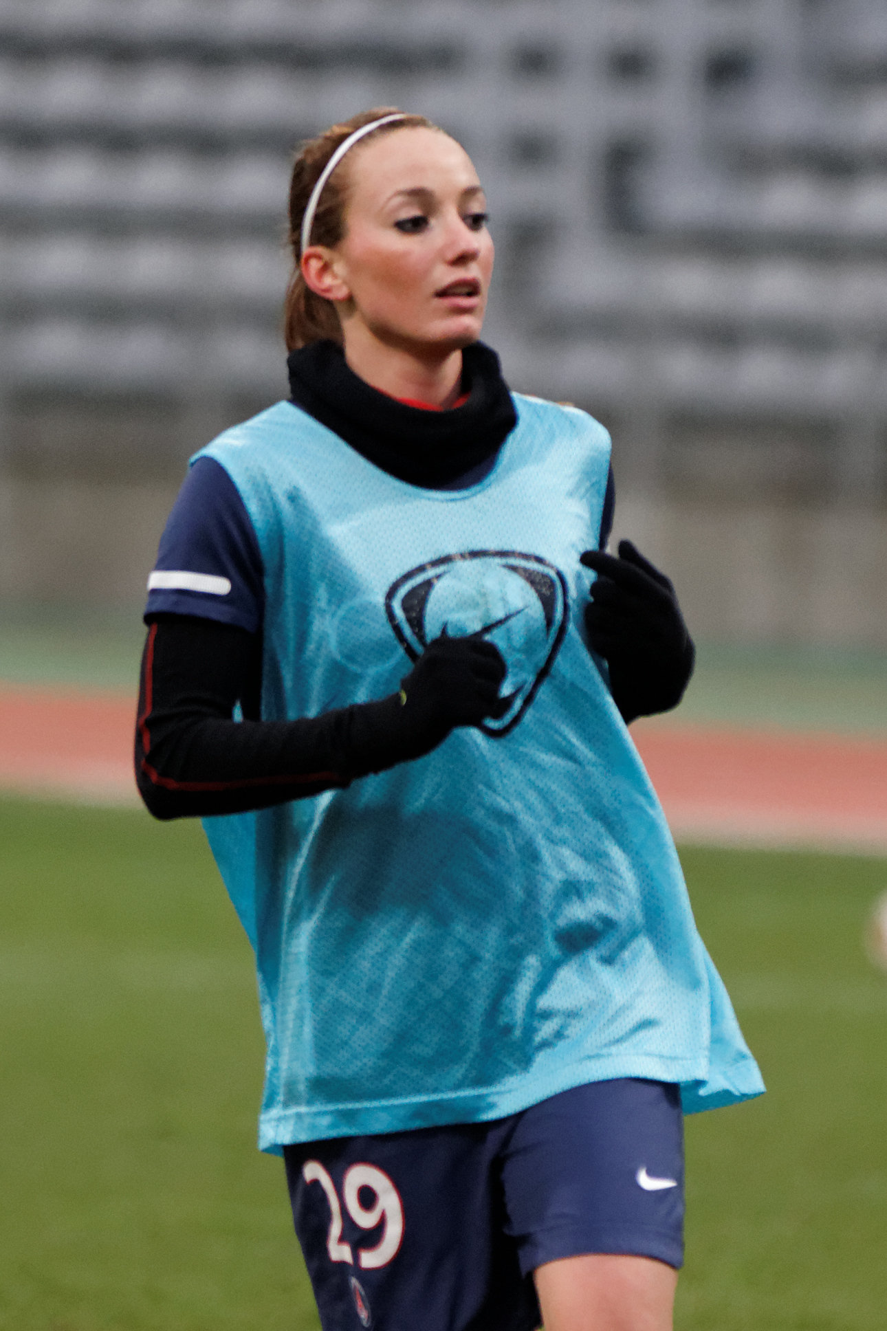 PSG-Montpellier, January 13th, 2013. Kosovare Asllani (PSG).